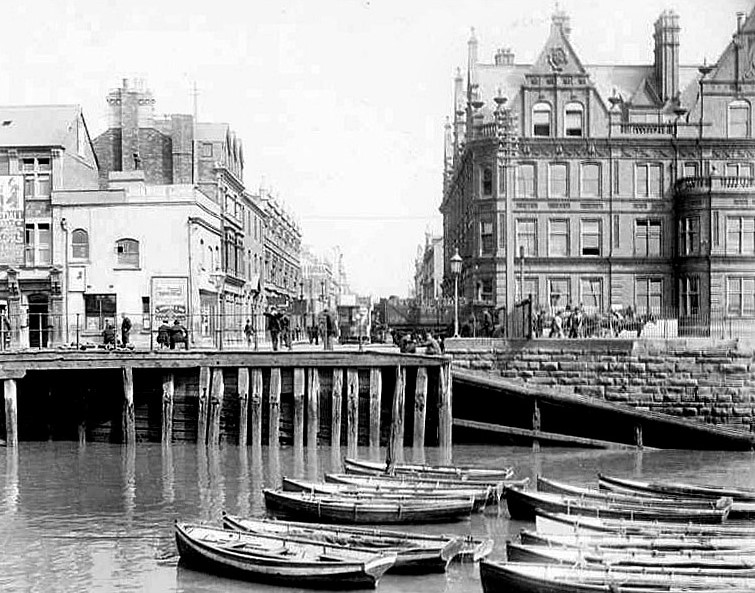 Cardiff Waterfront. The bottom of Bute Street Cardiff as seen from the Paddle Steamer berth.